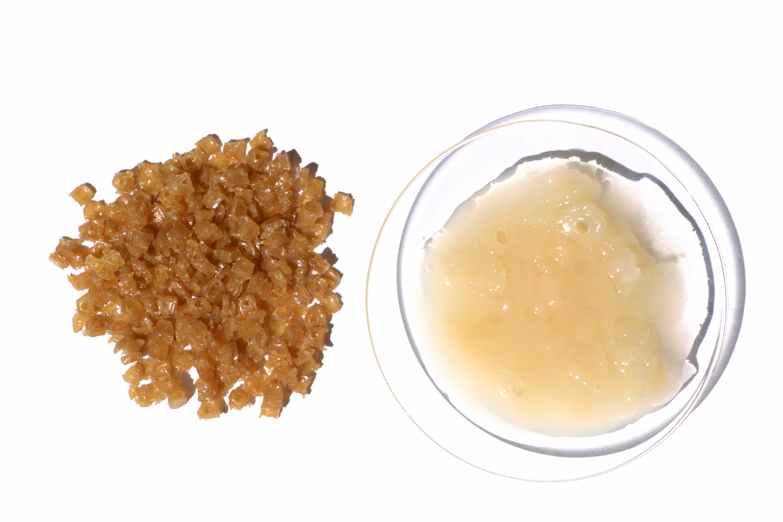 Rabbit-skin glue, pellets (left) and partially solved in water (right).